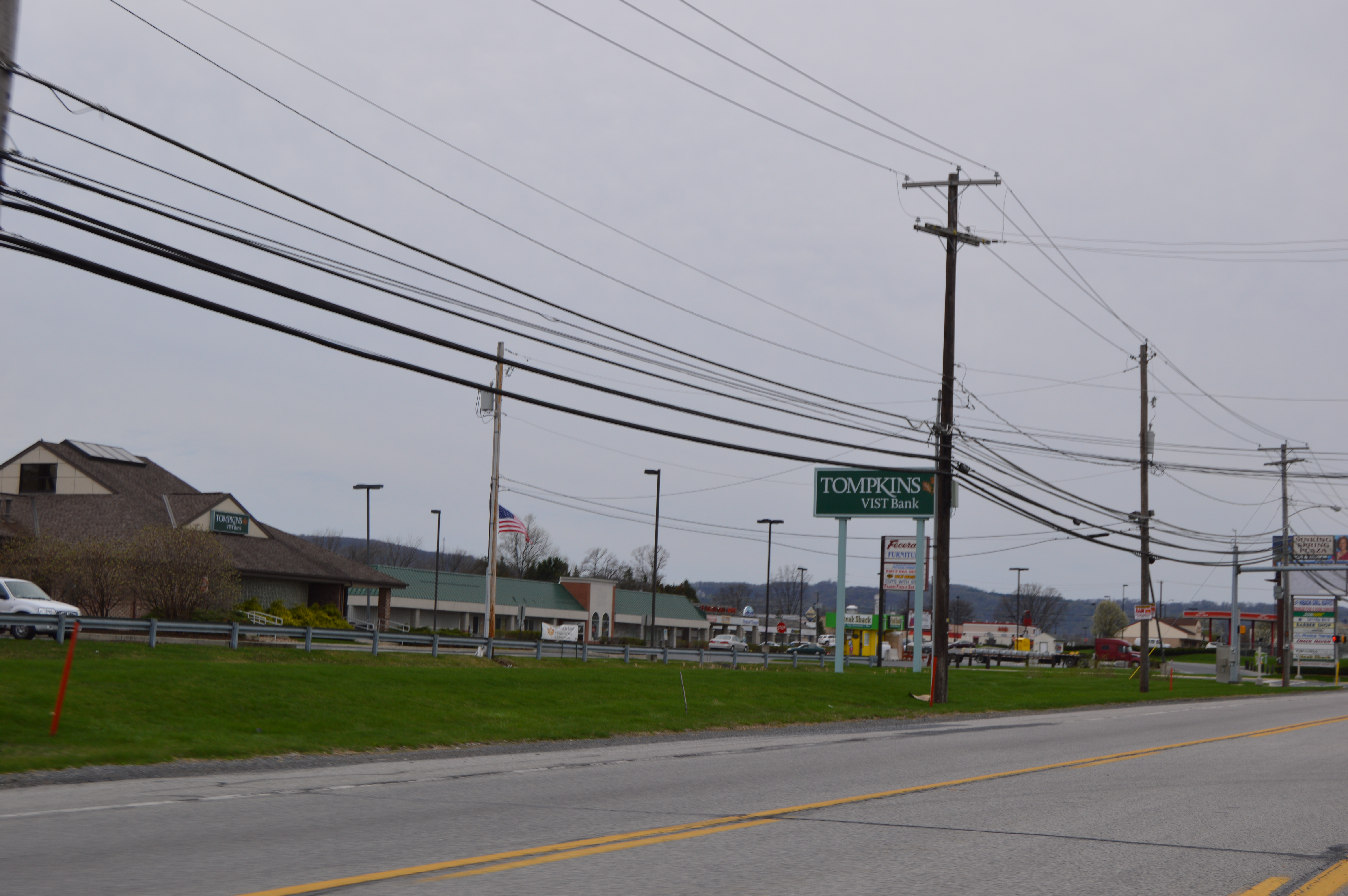 Suburban-type development on Penn Avenue (U.S. Route 422) west of Sinking Spring in South Heidelberg Township, Berks County, Pennsylvania, United States.